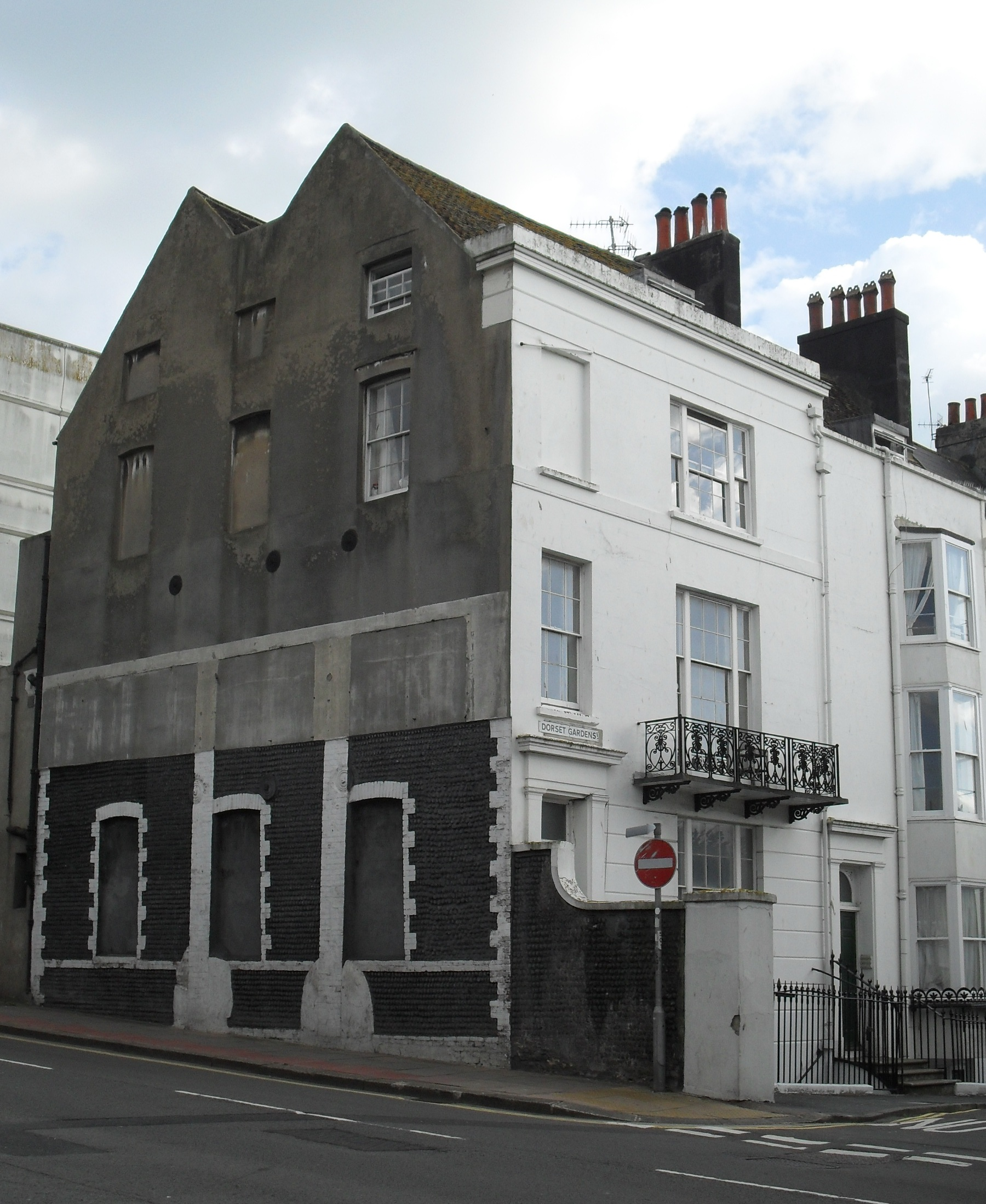 1 Dorset Gardens, Brighton, City of Brighton and Hove, East Sussex. Listed at Grade II by English Heritage (IoE Code 480590)